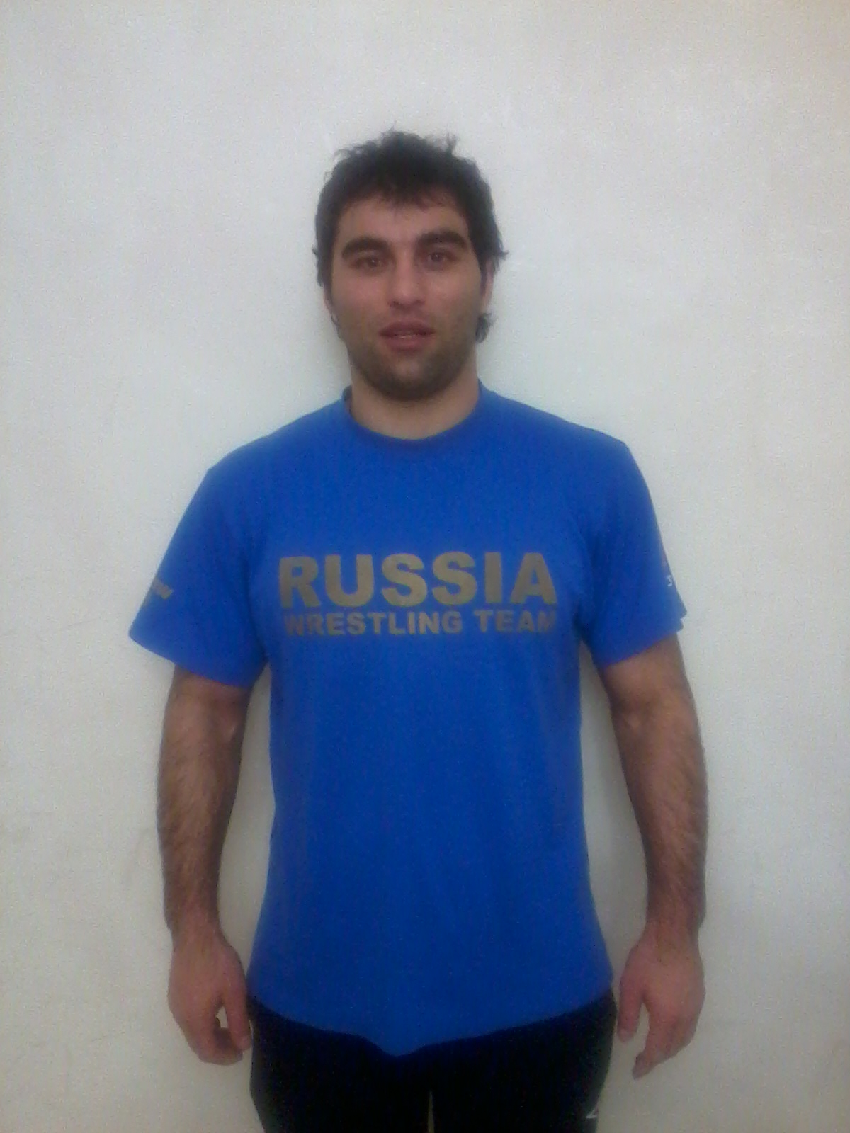 Russian wrestler Georgy Ketoyev